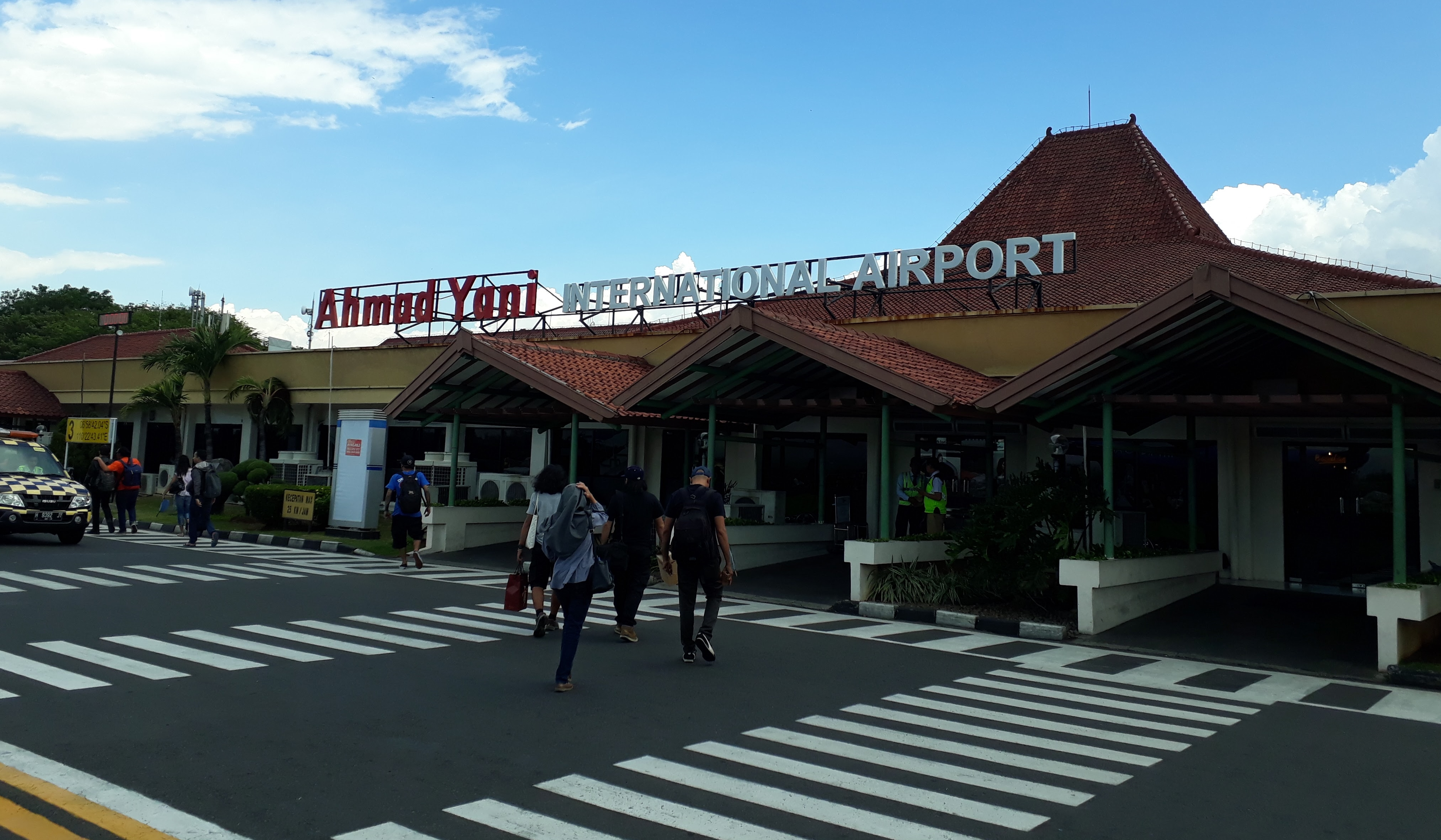 Arrival terminal, Ahmad Yani International Airport, Semarang, Indonesia